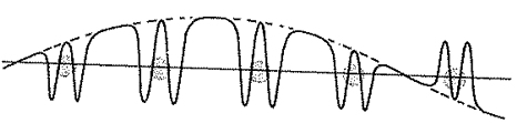 Bloch function wave structure